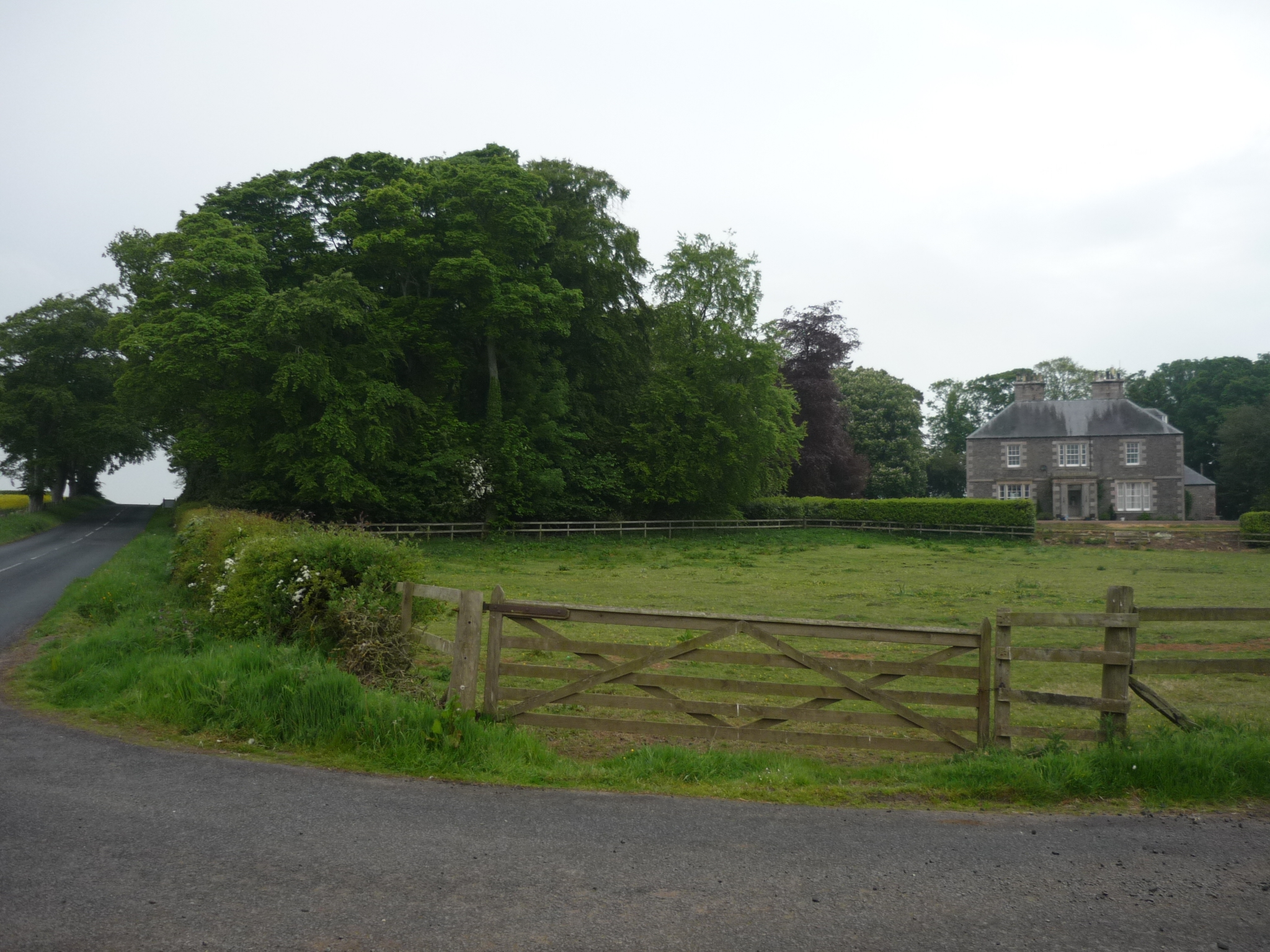 Holefield Farm house, on the B6396 road from Kelso in the Lempitlaw area, near the Scottish-English border. United Kingdom. Taken 26 May 2018.